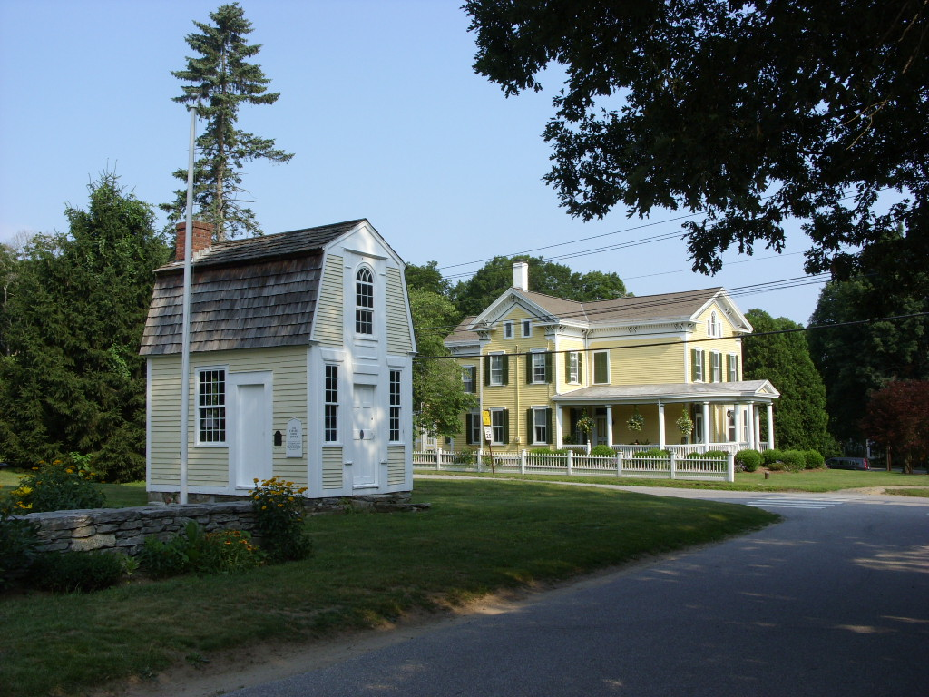 Chester Hunt Law Office (small building on the left), Windham, Connecticut